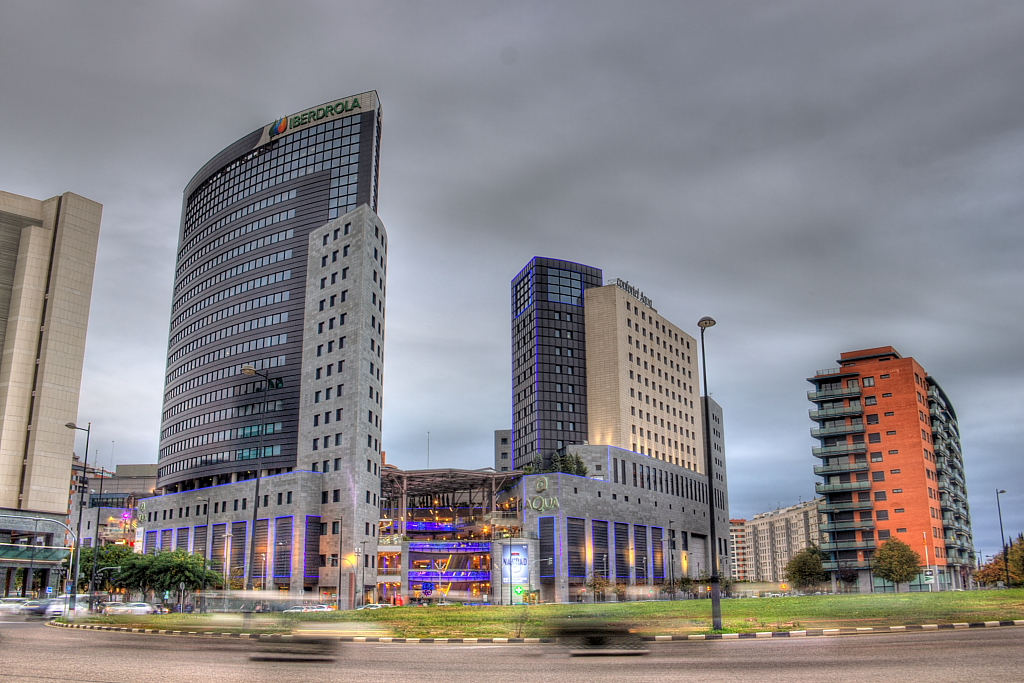 Handheld shot. HDR image generated from 3 RAW. Perfect day in Valencia, full of clouds, quite unusual. This image and many more from my Photostream are licensed under Creative Commons licence. Author: Salva Barbera. You can use this image on websites, blogs or other media projects without my permission as long as you credit me as the Author. My images may not be used for any profane or immoral purpose or to incite violence or hatred. Please read the Creative Commons image licence guidelines before downloading.